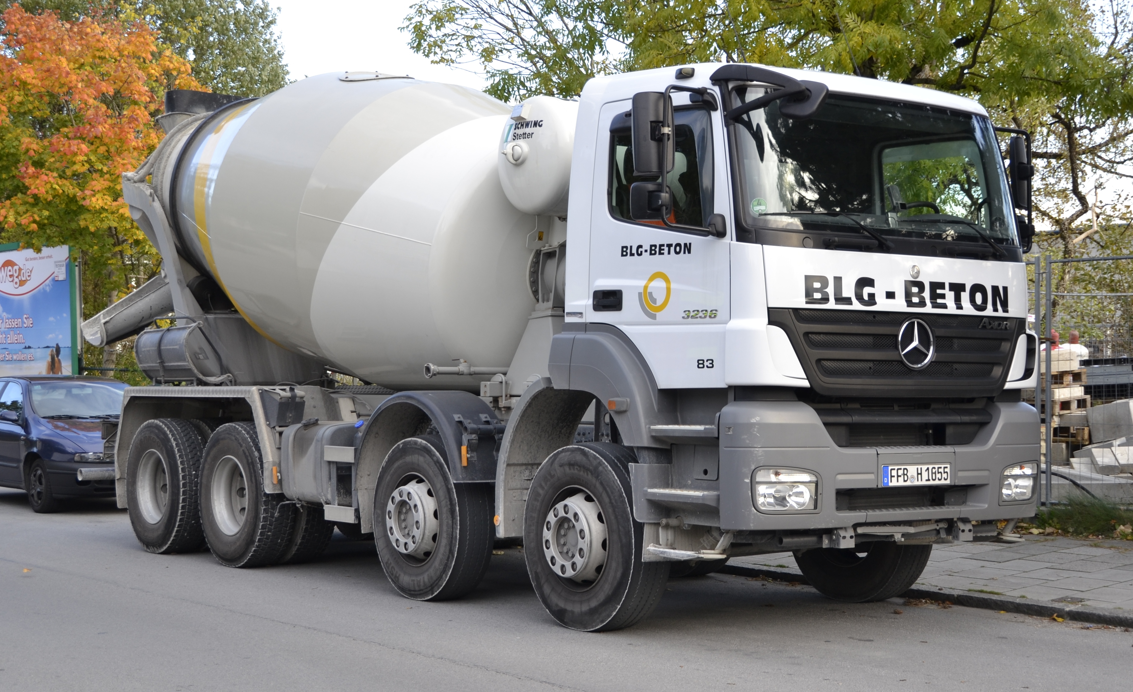 Mercedes-Benz Axor based cement mixer truck.